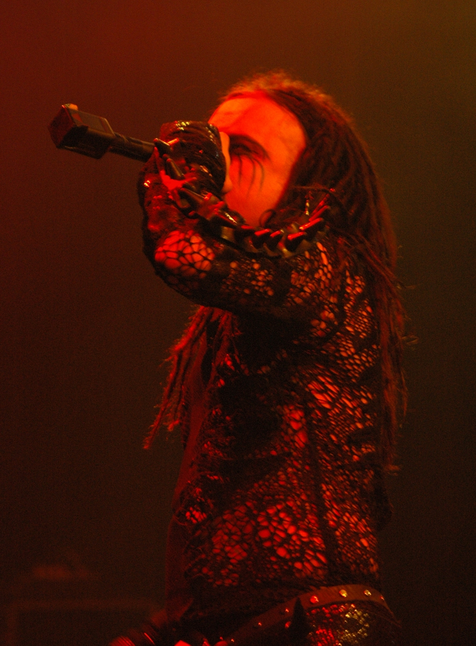 Daniel "Dani Filth" Davey from Cradle of Filth at Metalmania Festival 2005 in Poland